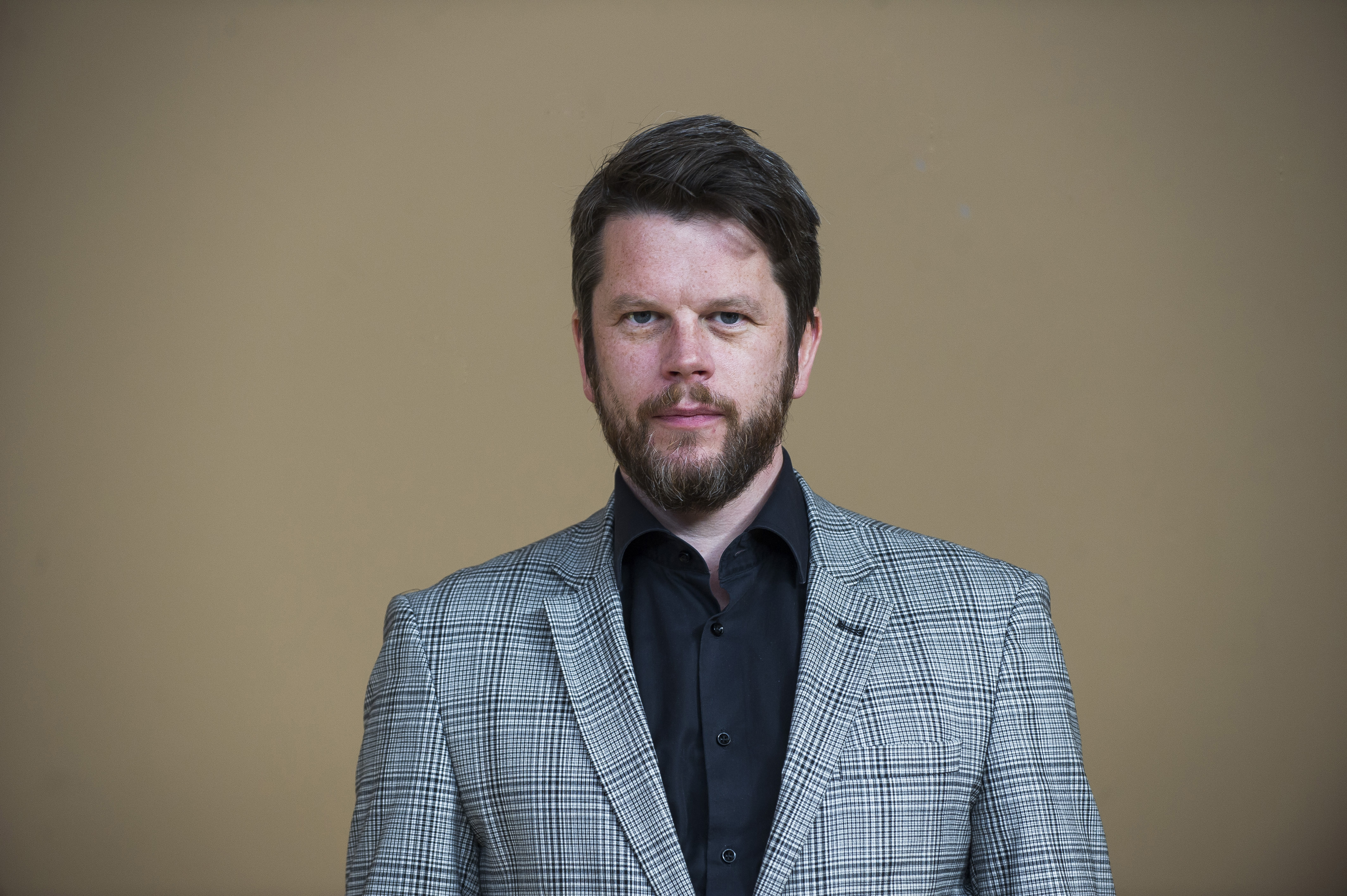 Photograph of Guðmundur Steingrímsson. Representative of the political party "Björt framtíð" (Bright future)